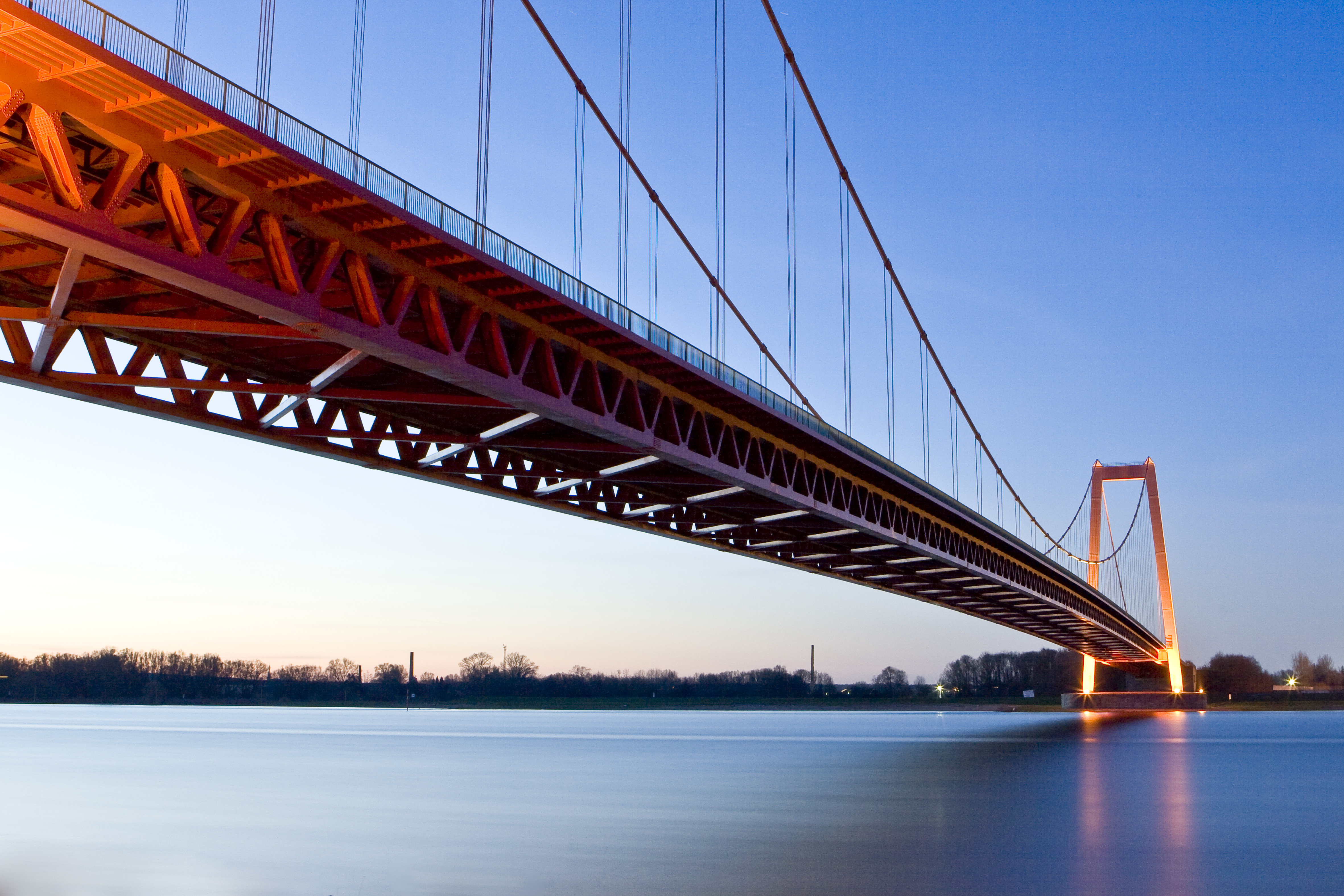 The Emmerich Rhine Bridge is a suspension bridge located in Emmerich am Rhein, Germany